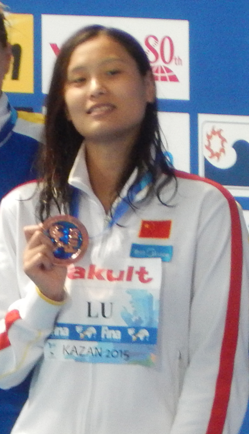 Medallists at the women's 50 metres butterfly in Kazan 2015